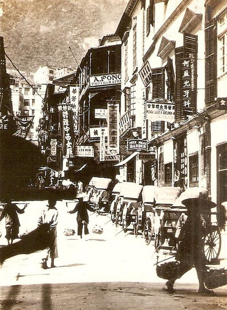 1930s in Hong Kong. Note A. Fong photo studio.